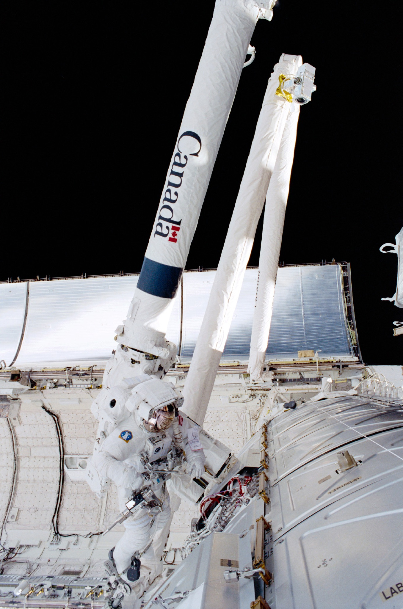 STS100-396-007 (19 April - 1 May 2001) --- Astronaut Scott E. Parazynski, mission specialist, works with cables associated with the Space Station Remote Manipulator System (SSRMS) or Canadarm2 during one of two days of extravehicular activity (EVA). Parazynski shared both space walks with astronaut Chris A. Hadfield of the Canadian Space Agency (CSA).